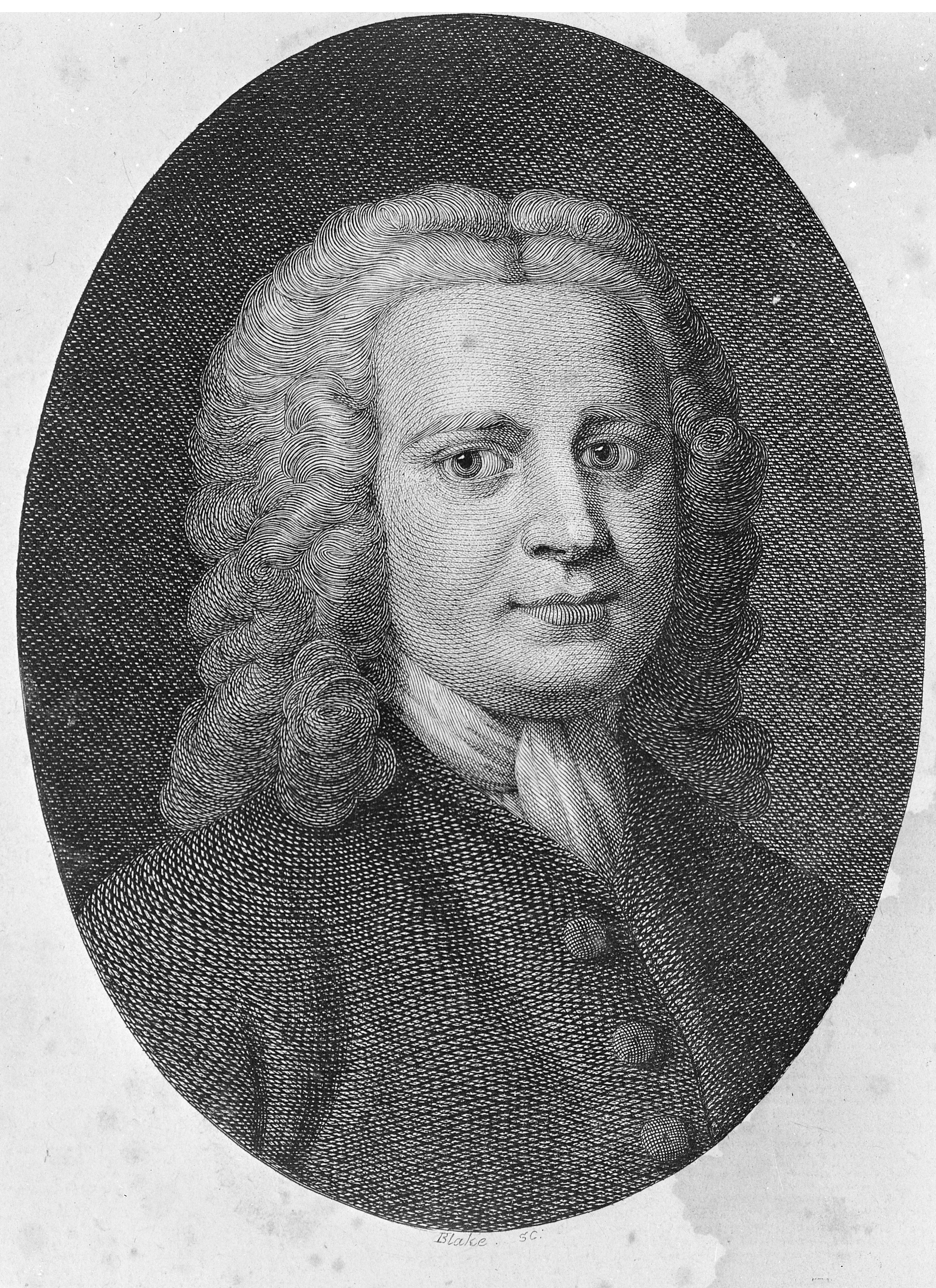 Portrait of D. Hartley, 17thC Rare Books Keywords: David Hartley